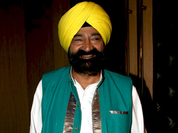 Sab TV Launches 4 Shows With Style